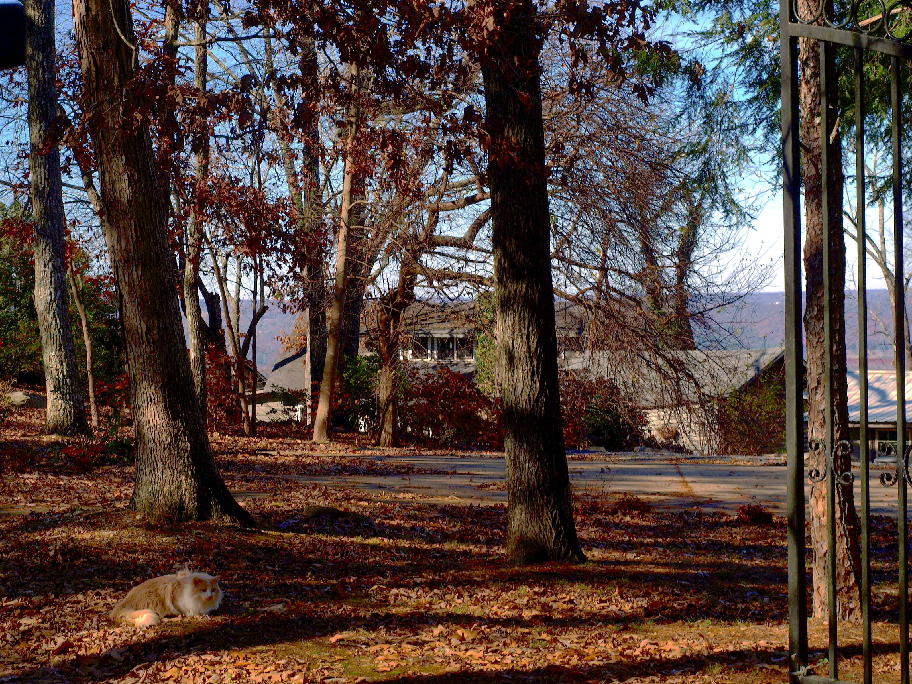 The Dr. J.A. Gorman House in Mentone, Alabama, listed on the National Register of Historic Places